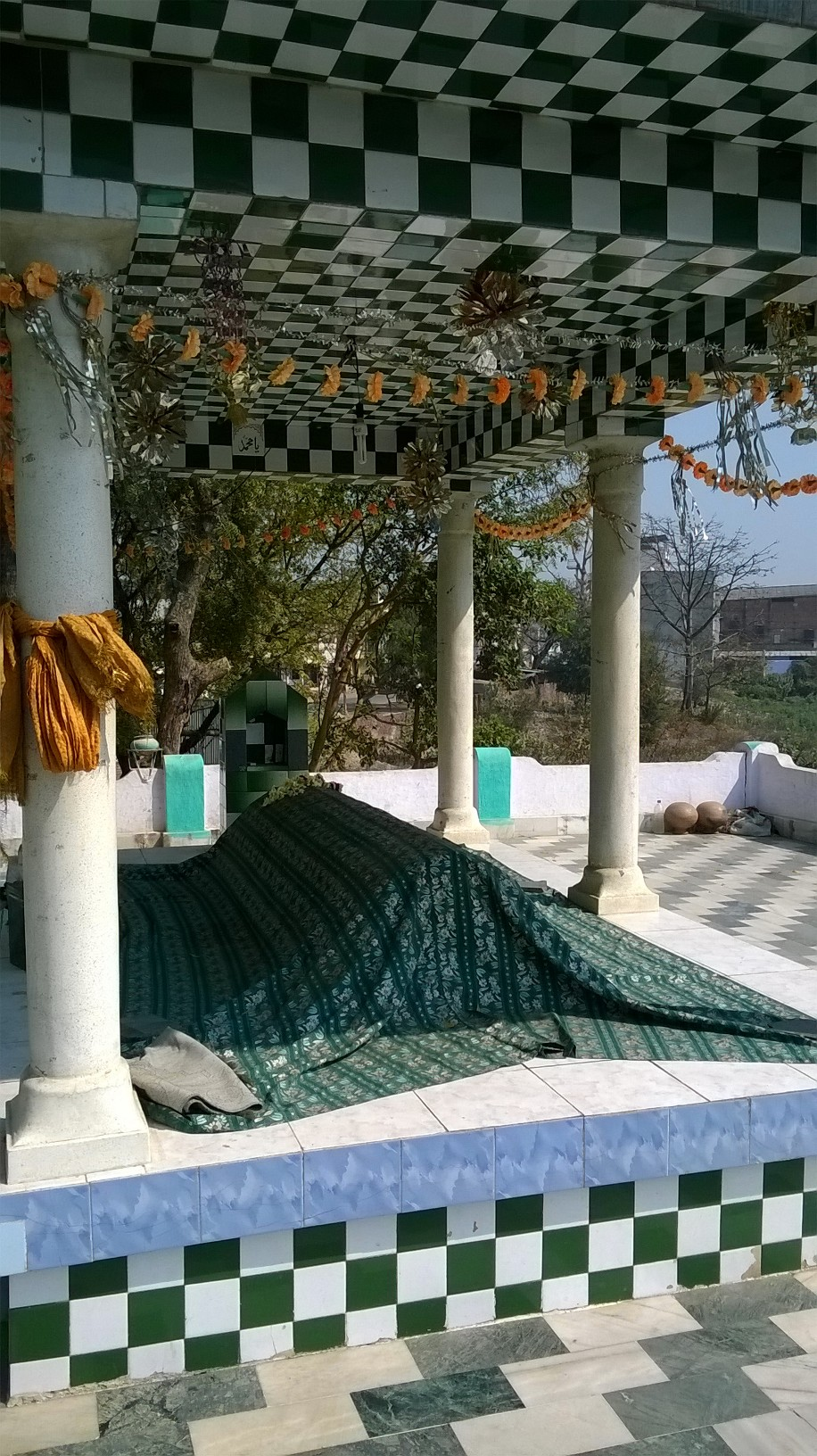 Grave of Syed Buddhan Shah Bahraichi